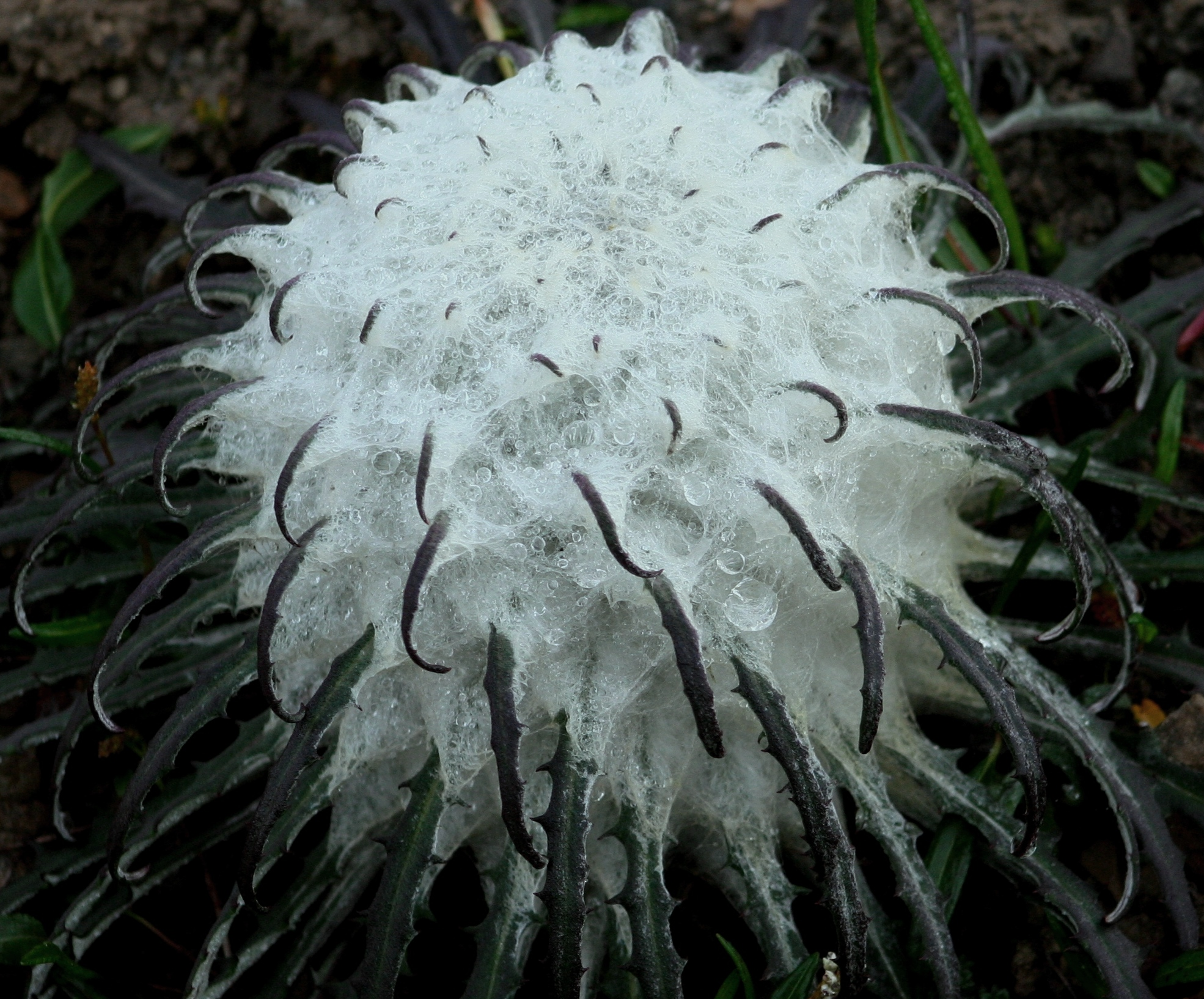 Icy Saussurea gossypiphora, shot in the Himalaya